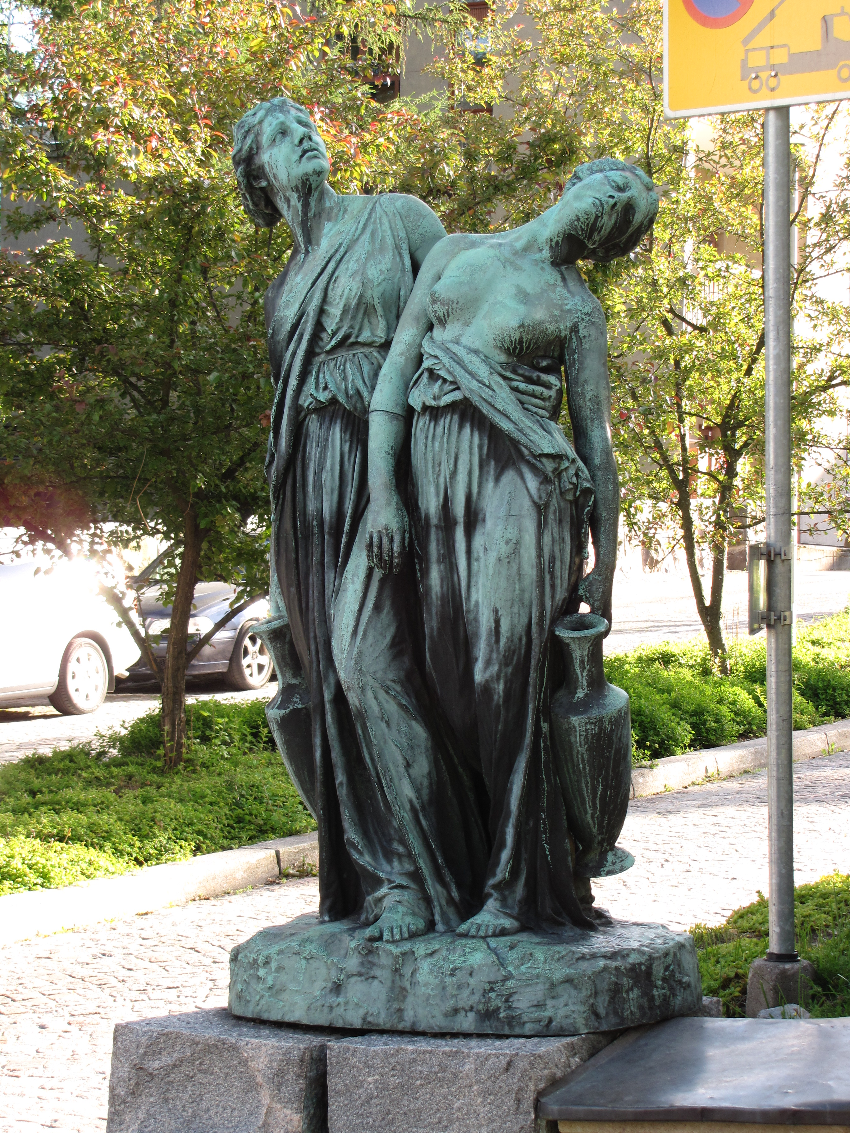 Danaidit (The Danaides) sculpted by Walter Runeberg (1838 - 1920) in 1893. Erected outside the children's clinic in Taka-Töölö in 1950.